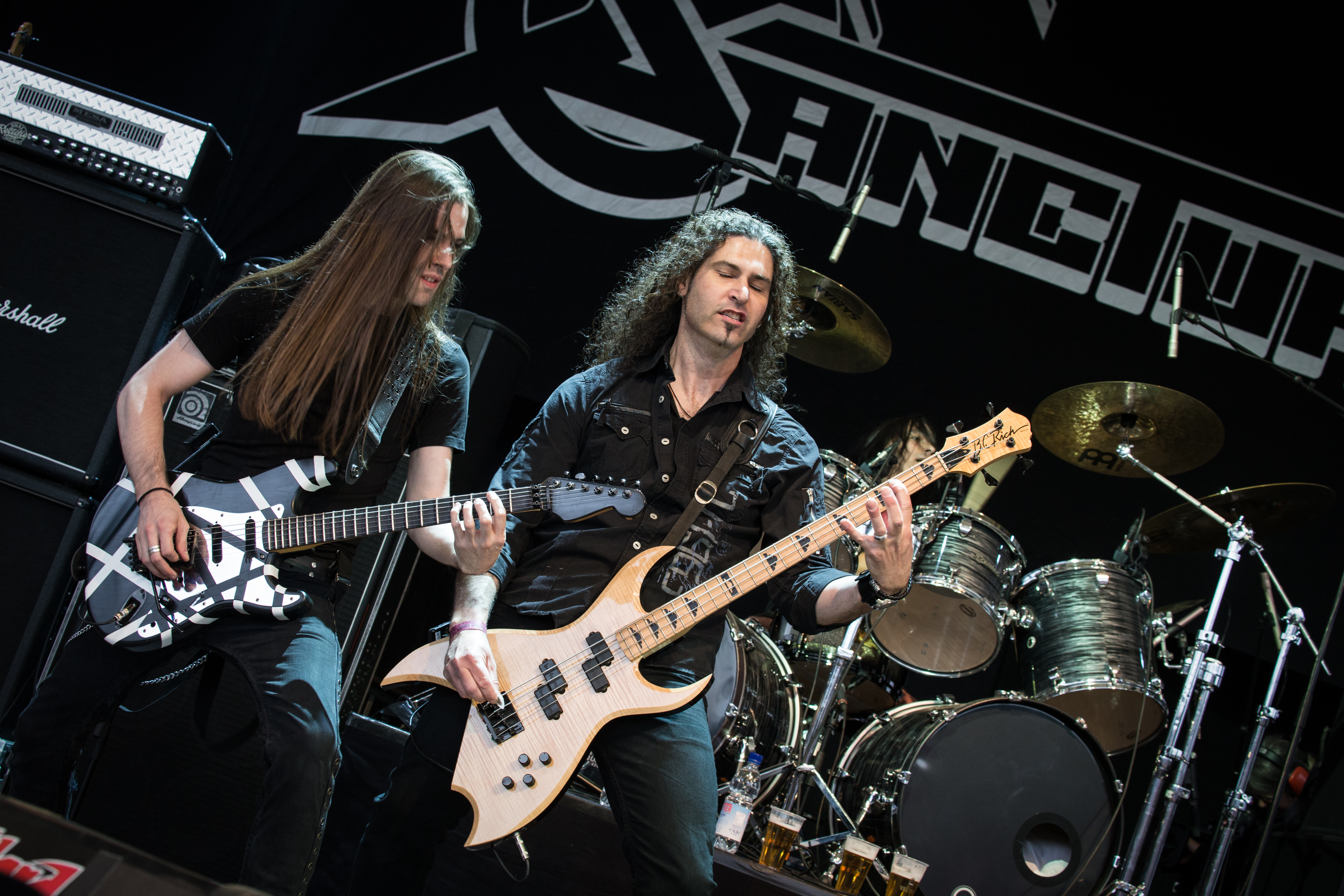 Sanctuary performing live at Rock Hard Festival, May 2015, Gelsenkirchen